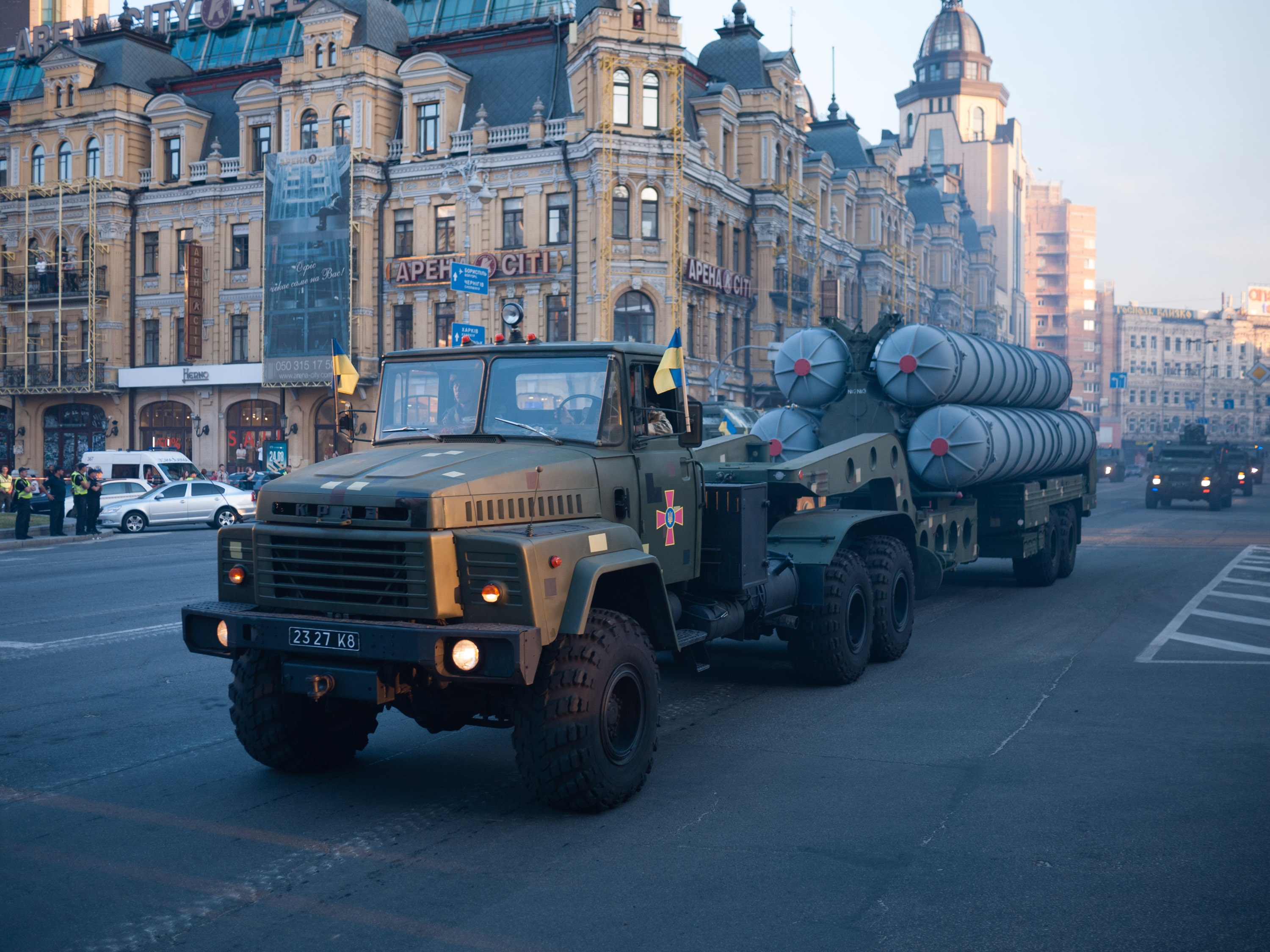 300PT towed surface-to-air missile system and KrAZ-260V tractor, rehearsal for the Independence Day military parade in Kyiv, 2018